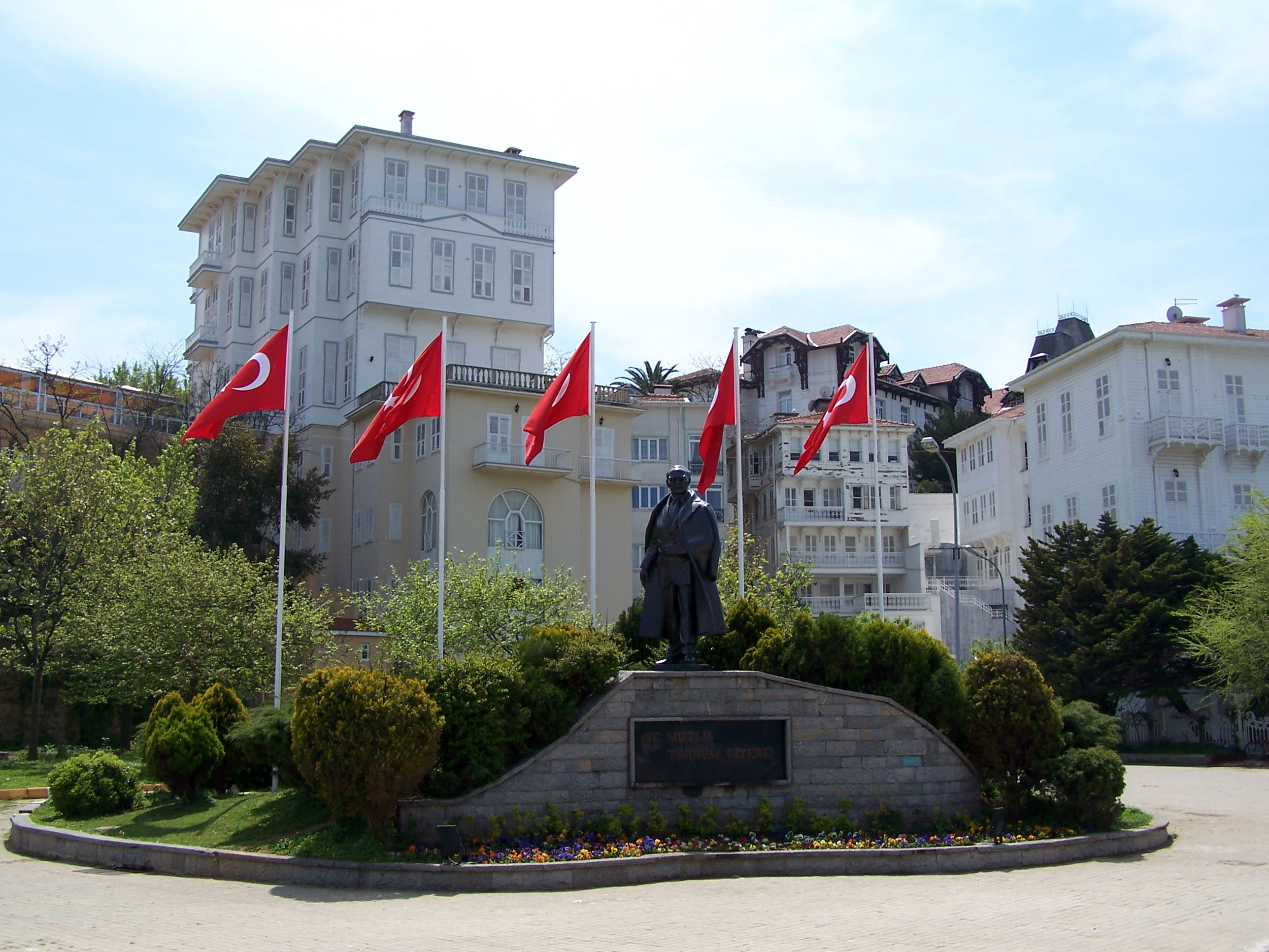 Statue of Mustafa Kemal Atatürk with the inscription "Ne mutlu Türküm diyene" in Büyükada, the largest of the Prince Islands in the Sea of Marmara, to the southeast of Istanbul, Turkey.